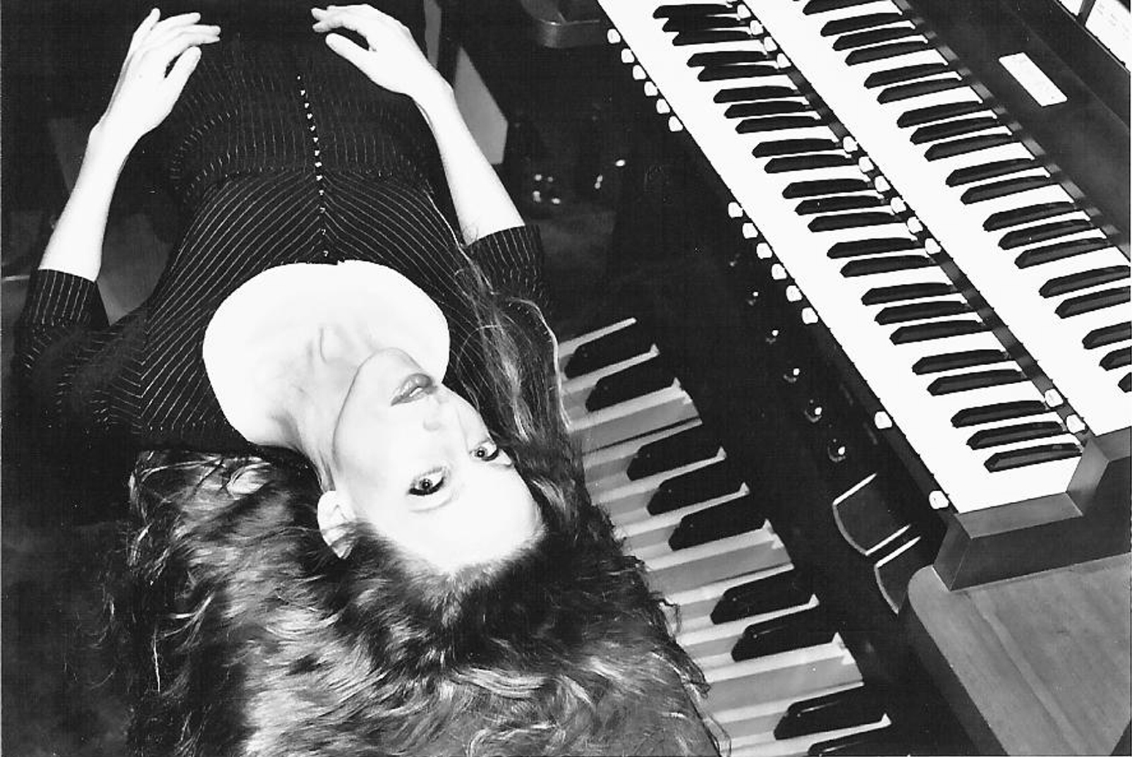 Promotional photograph of Kristen Lawrence.